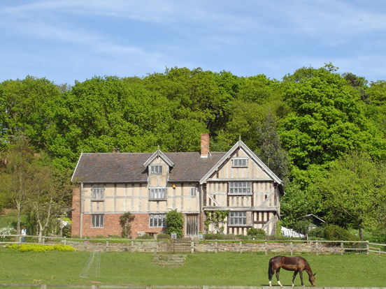 Austerson Old Hall Austerson Old Hall from the Sandstone Trail, Alvanley. This timber framed hall, a Grade II* listed building, was brought from Old Hall Austerson, a hamlet near Nantwich, and reassembled here between 1974 and 1986 by Jim Brotherhood, a local architect! A 16th century timber farm remains at the original site SJ6549.